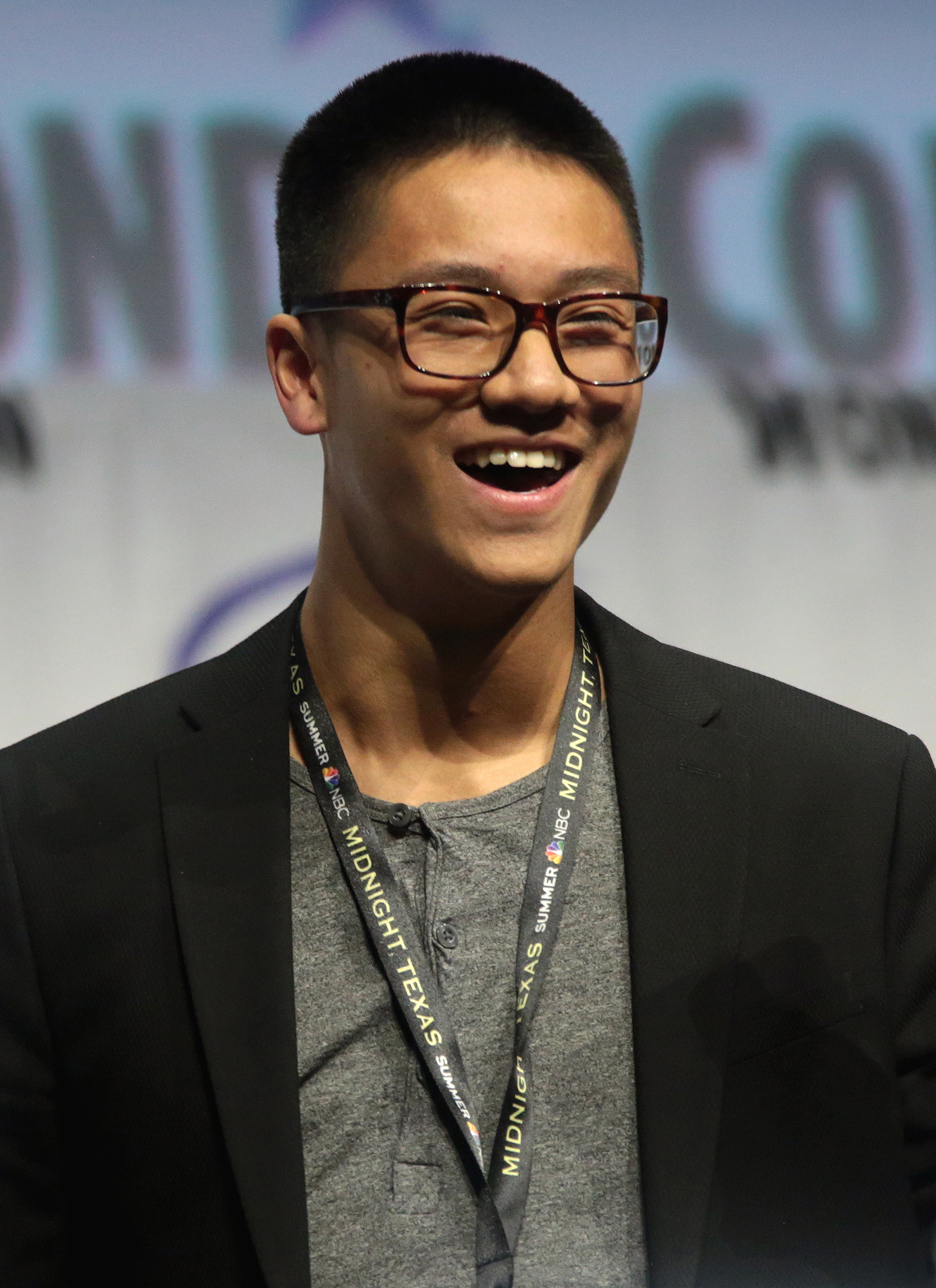 Brandon Soo Hoo speaking at the 2017 WonderCon in Anaheim, California.